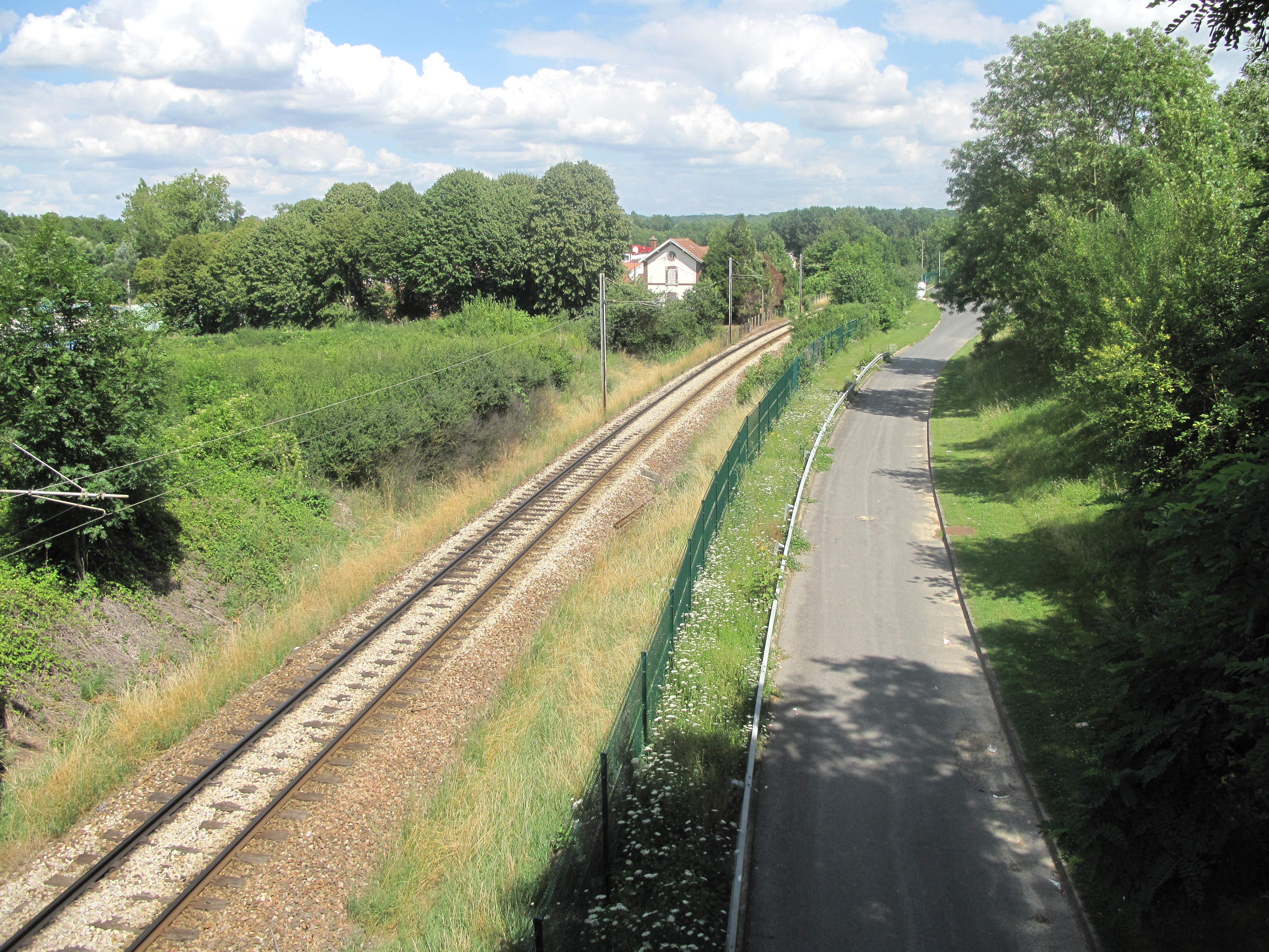 Rail track Esbly Crécy-la-Chapelle, seen from a bridge in Esbly, Seine-et-Marne, France.